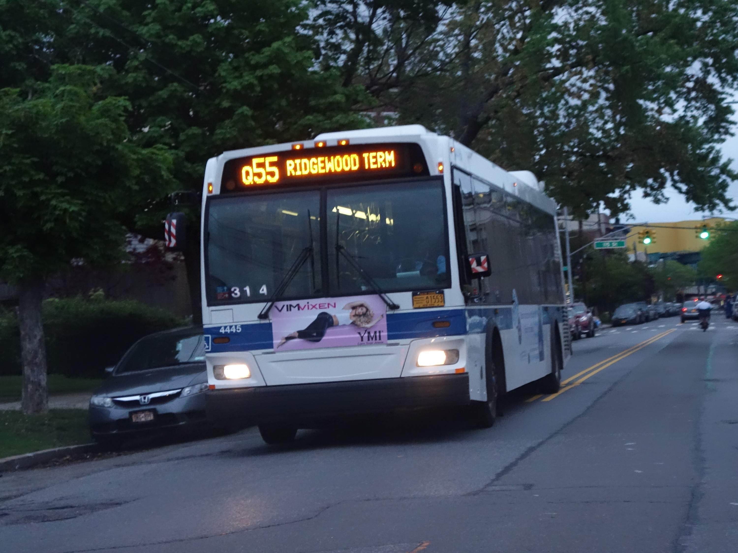 A Ridgewood Terminal-bound Q55 bus traveling west on Myrtle Avenue at 114th Street in Richmond Hill, Queens.